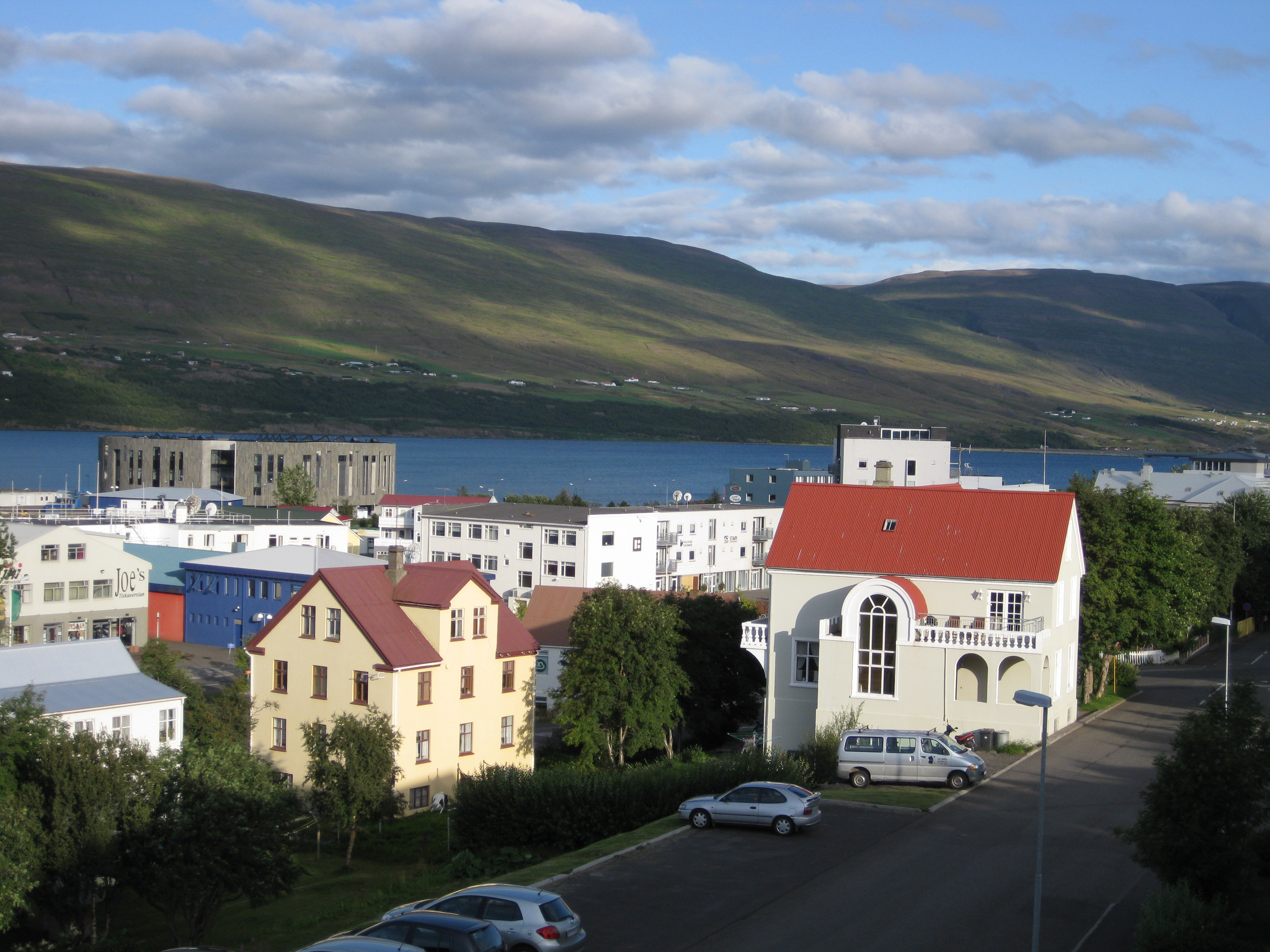 Akureyri, Iceland. View of the city, August 2009.